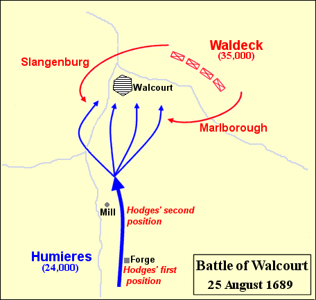 This image is selfmade. Adapted from Winston Churchill's Marlborough: Life and Times.